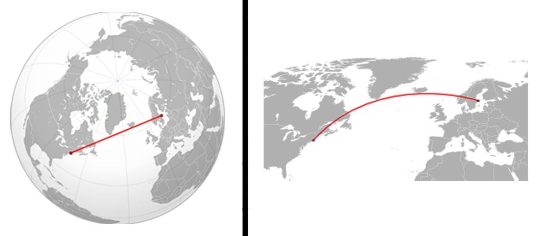 This image describes how different map projections can create illusions. The image to the left is an orthographic projection of the northern Atlantic Ocean and the image to the right is a Robinson projection of the same area. The red line on both images is an air route between Stockholm and New York. The two lines are placed on the same coordinates but on the orthographic projection the line is straight and on the Robinson projection the line is bent.